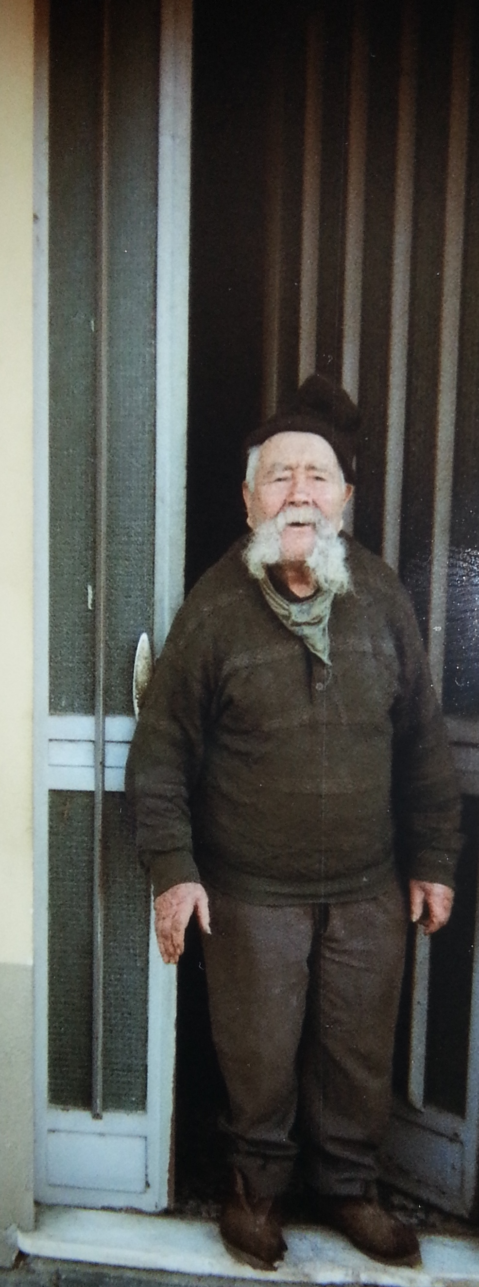 Giuseppe Artusio alias Pinin of Captun (born in Castino (CN) February 14, 1925, a resident of Baldissero Roero (Piedmont), perhaps the last "Bacialè" or matchmaker